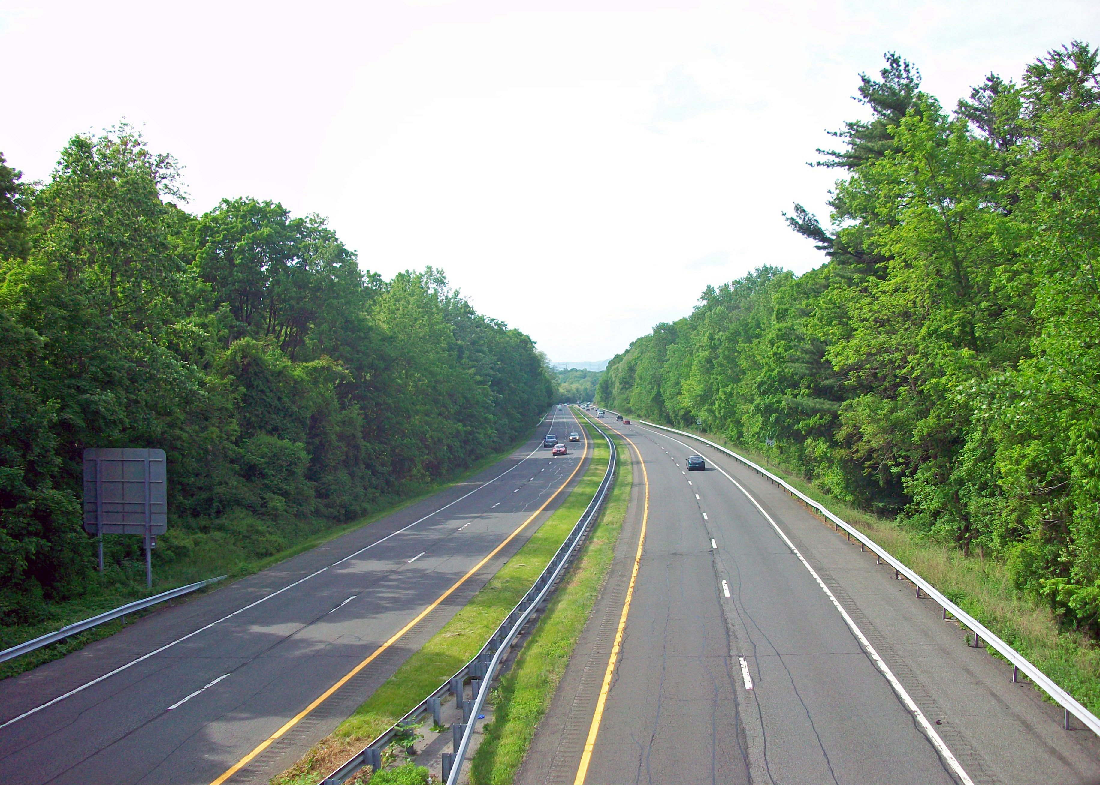 The Croton Expressway section of US 9, looking north from an overpass in the town of Cortlandt.